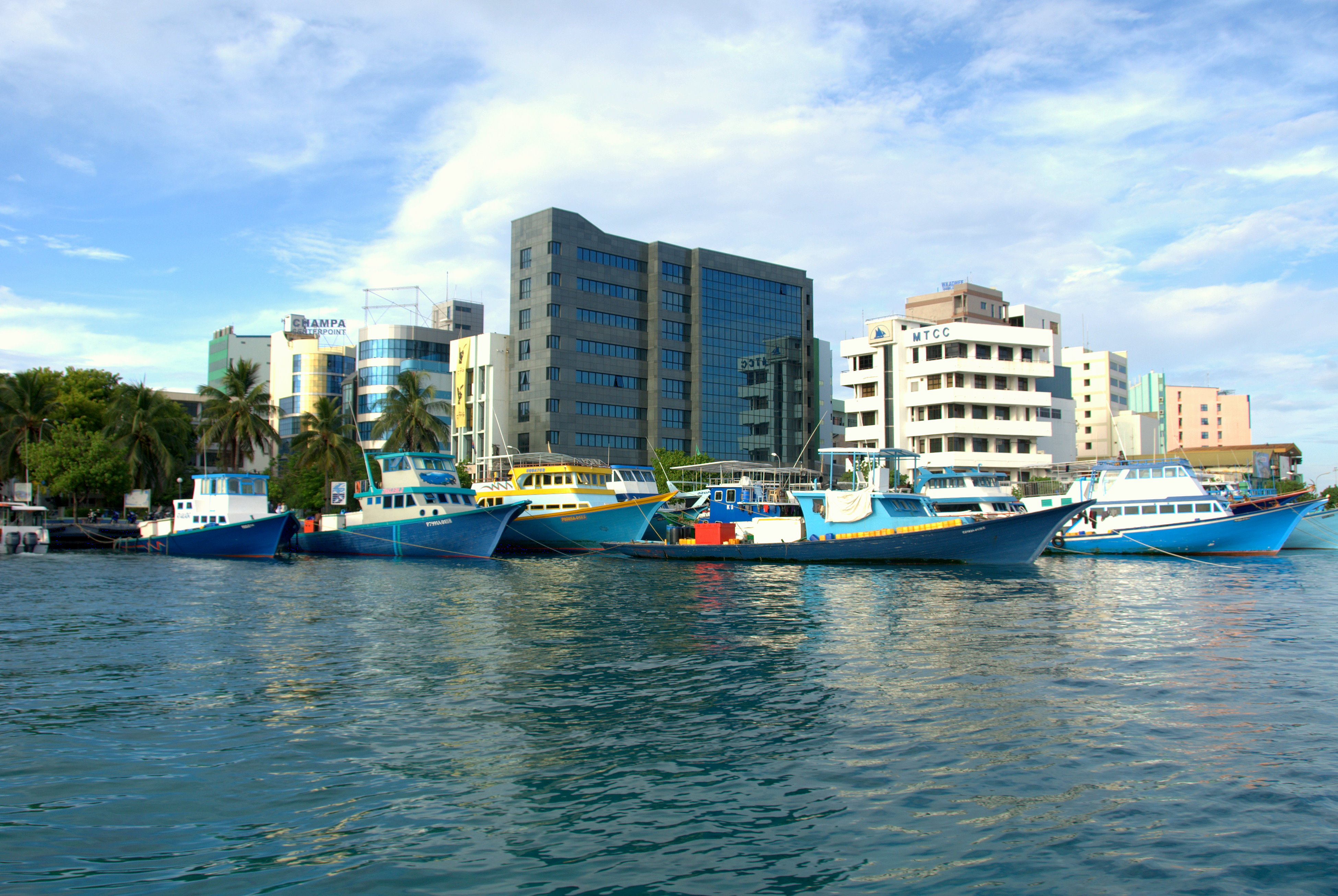 The recently built building of Maldives Monetary Authority